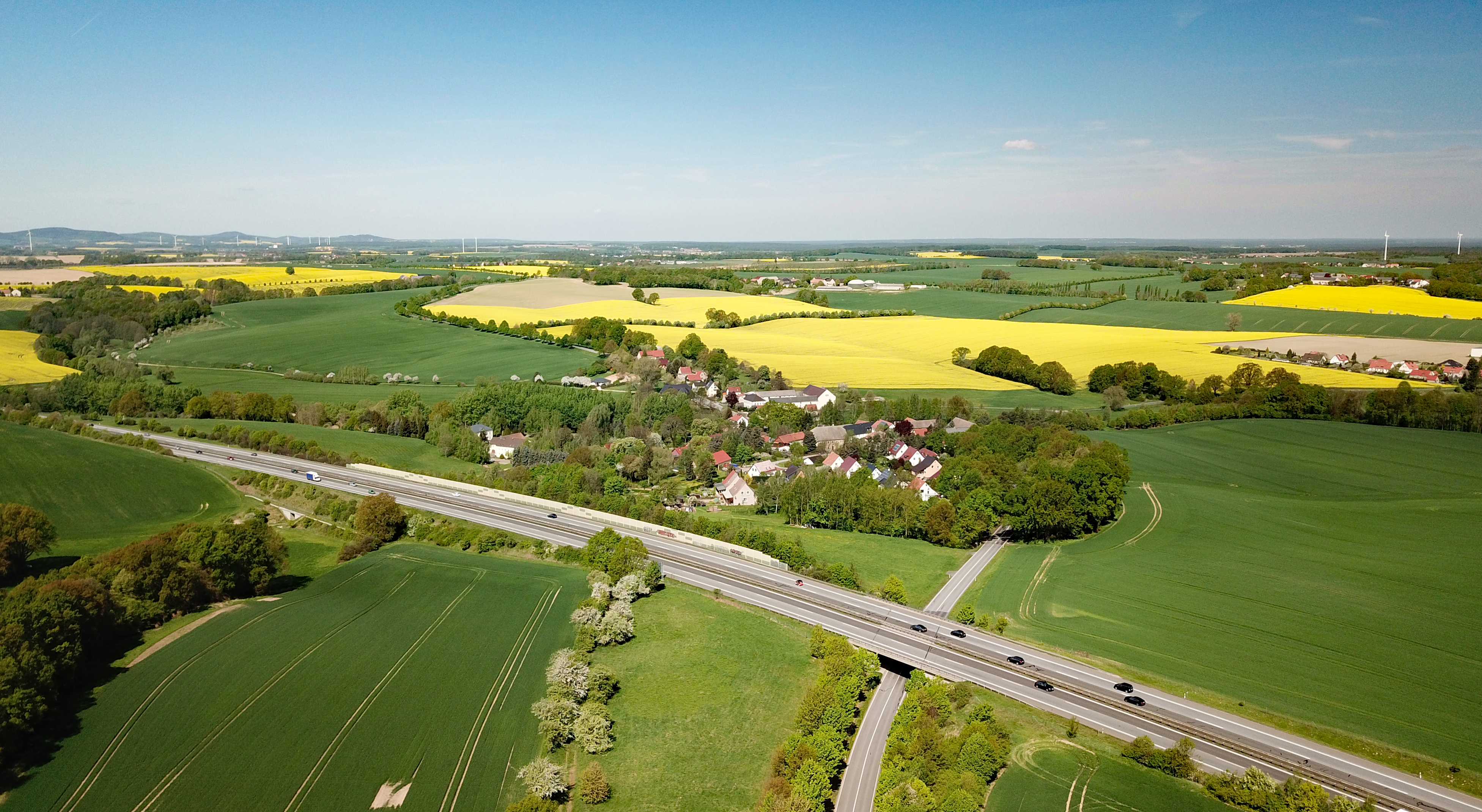 Prischwitz (Göda, Saxony, Germany) Hornjoserbsce: Powětrowy wobraz Prěčec z awtodróhu A 4